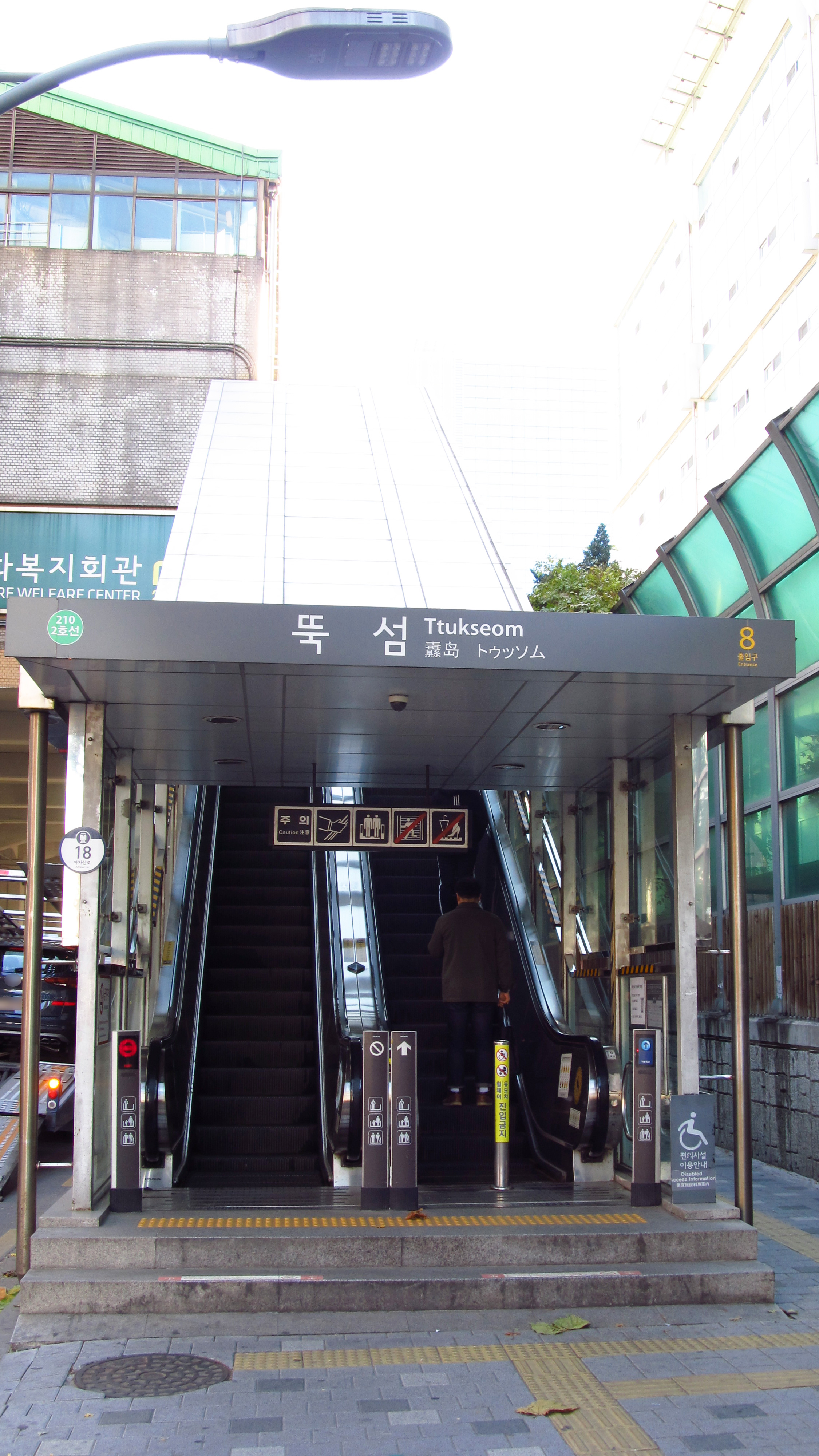 The no.8 entrance to Ttukseom Station on the Seoul Metro Line 2 in Seongdong-gu, Seoul, Republic of Korea(South Korea)